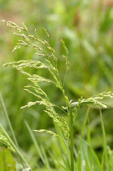 Picture taken in Commanster, Belgian High Ardennes . Species: Poa compressa